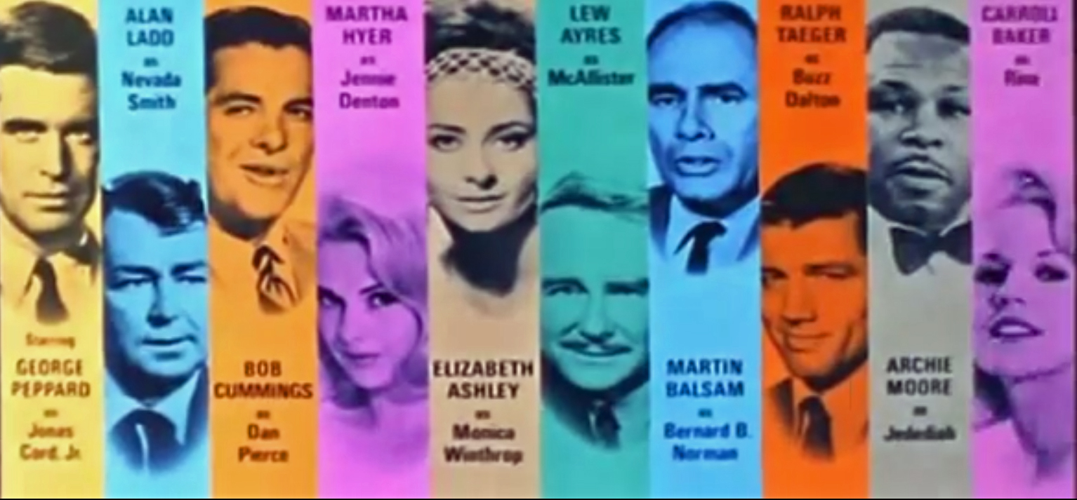 Screenshot from trailer for the American drama film The Carpetbaggers (1964).